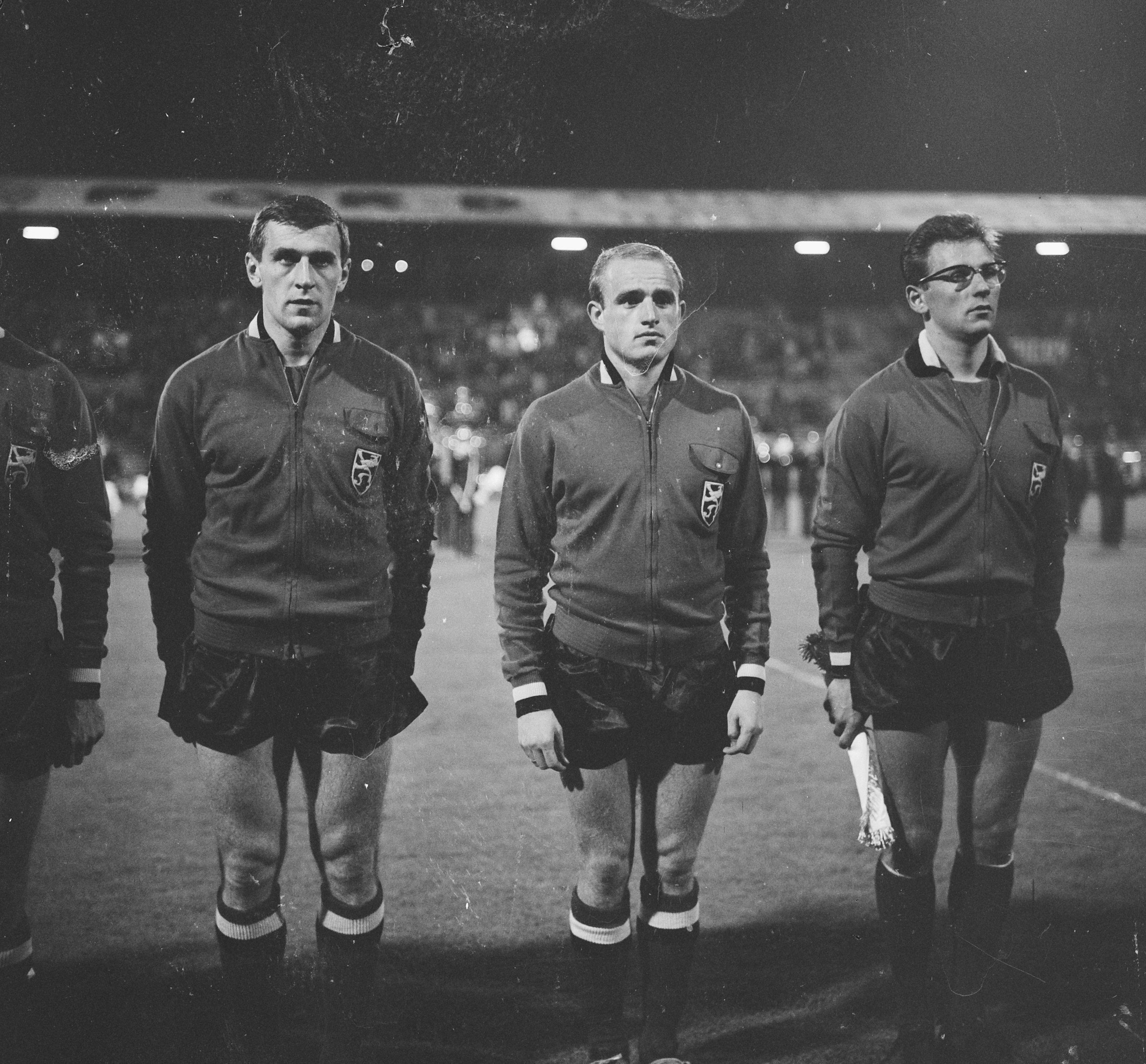 Belgium national team during the Olympic Games, 1964, Tokyo From left to right: Jacques Stockman, Georges Heylens and Jef Jurion.